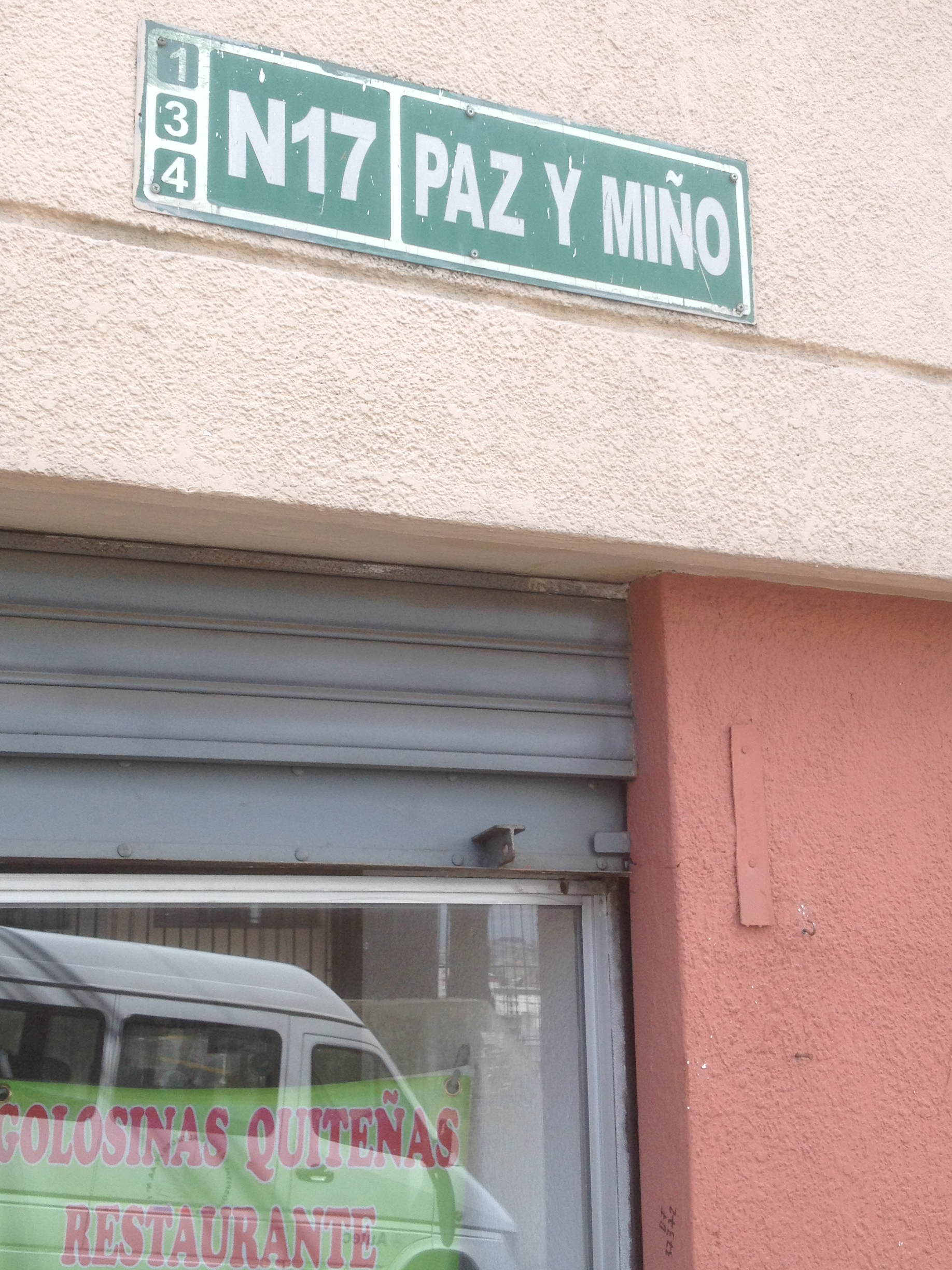 "Paz y Miño" street sign in the City of Quito, Pichincha Province, Ecuador